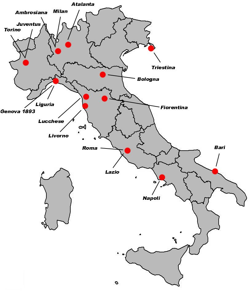 Serie A 1937-38 team locations